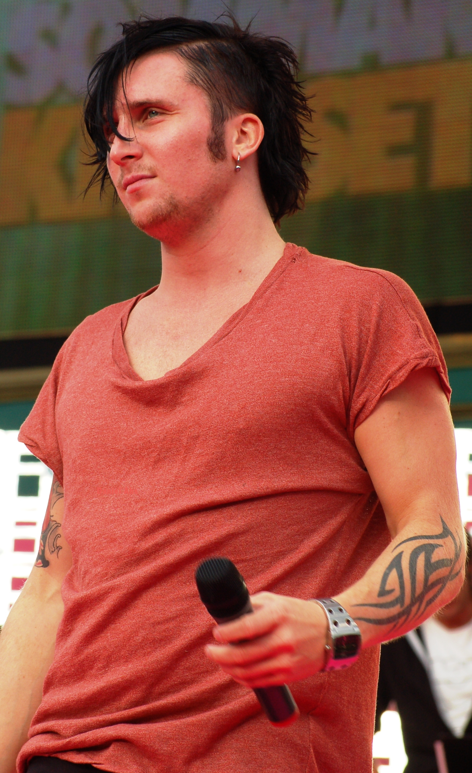 Markus Fagervall at Gröna Lund, Sommarkrysset